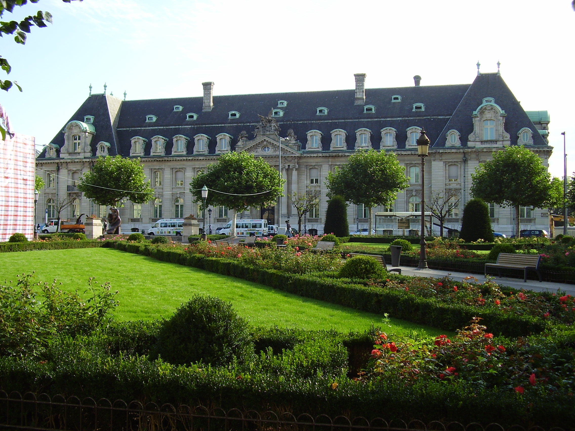 headquarder of ArcelorMittal in Luxemburg city